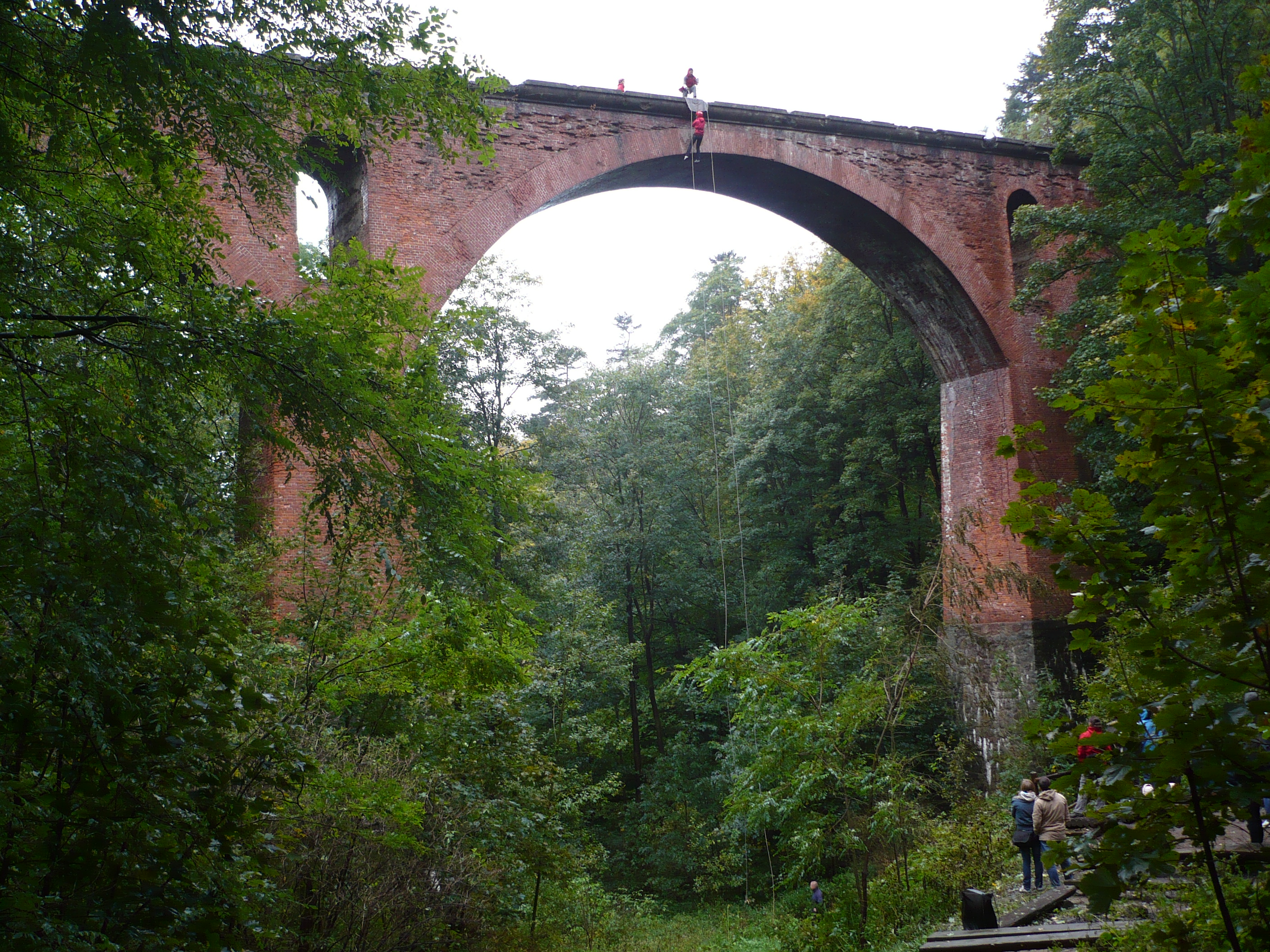 Abseiling from a bridge of abolished cog railway in Polish Silesia (Eulengebrigsbahn)